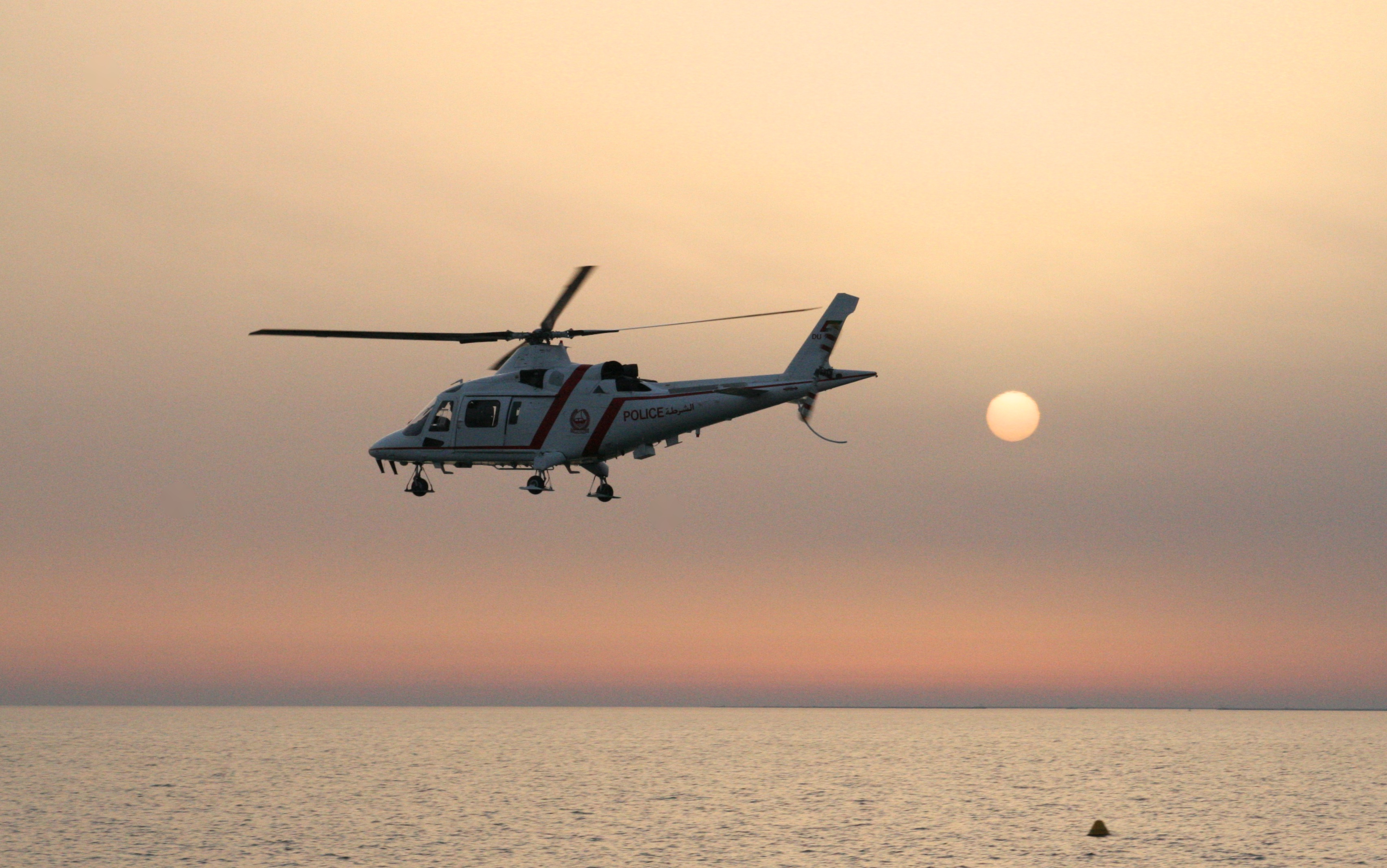 Jumeirah, Dubai, United Arab Emirates